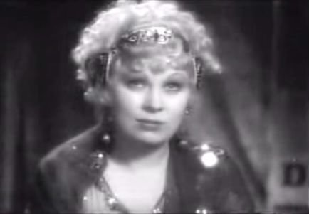 Cropped screenshot of Mae West from the trailer for the film I'm No Angel